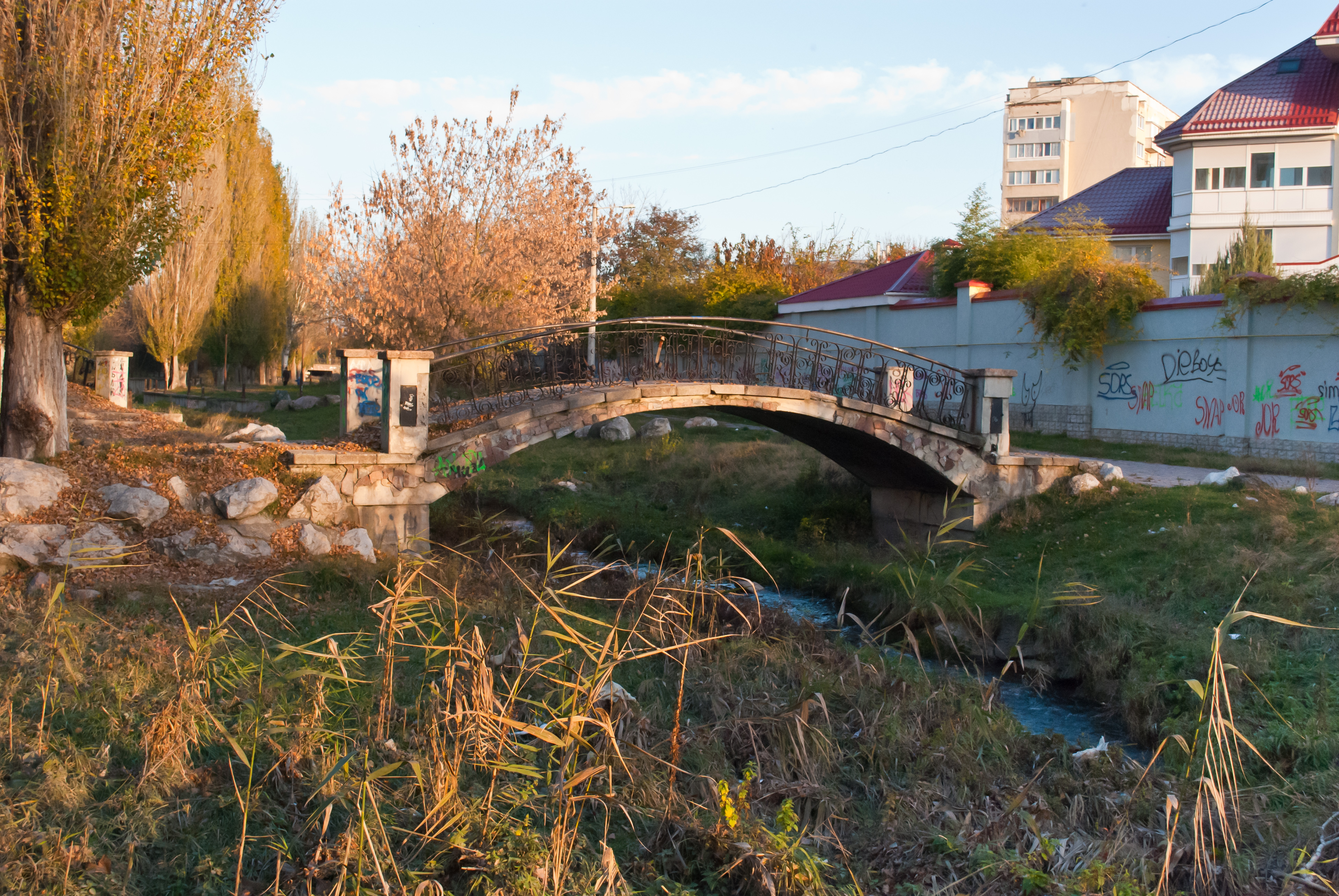 The flow of Maly Salgir River with small bridge in Simferopol.